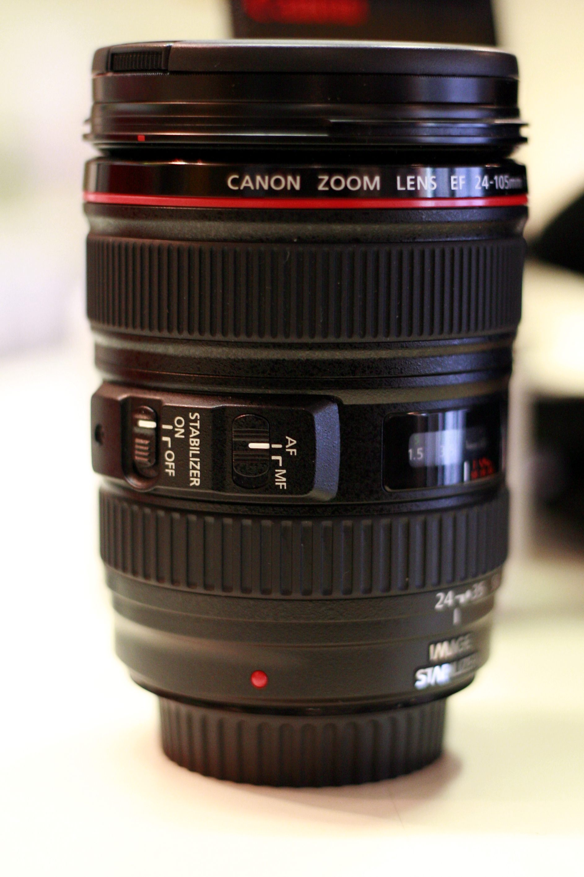 Canon 24-105L IS USM zoom lens. Photograph taken with a Canon EOS 5D equiped with a Canon 50mm f/1.8